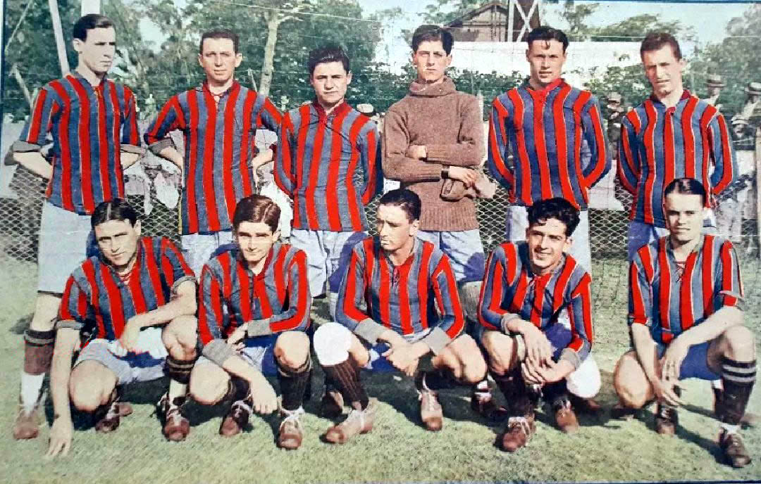 Team of Estudiantil Porteño.